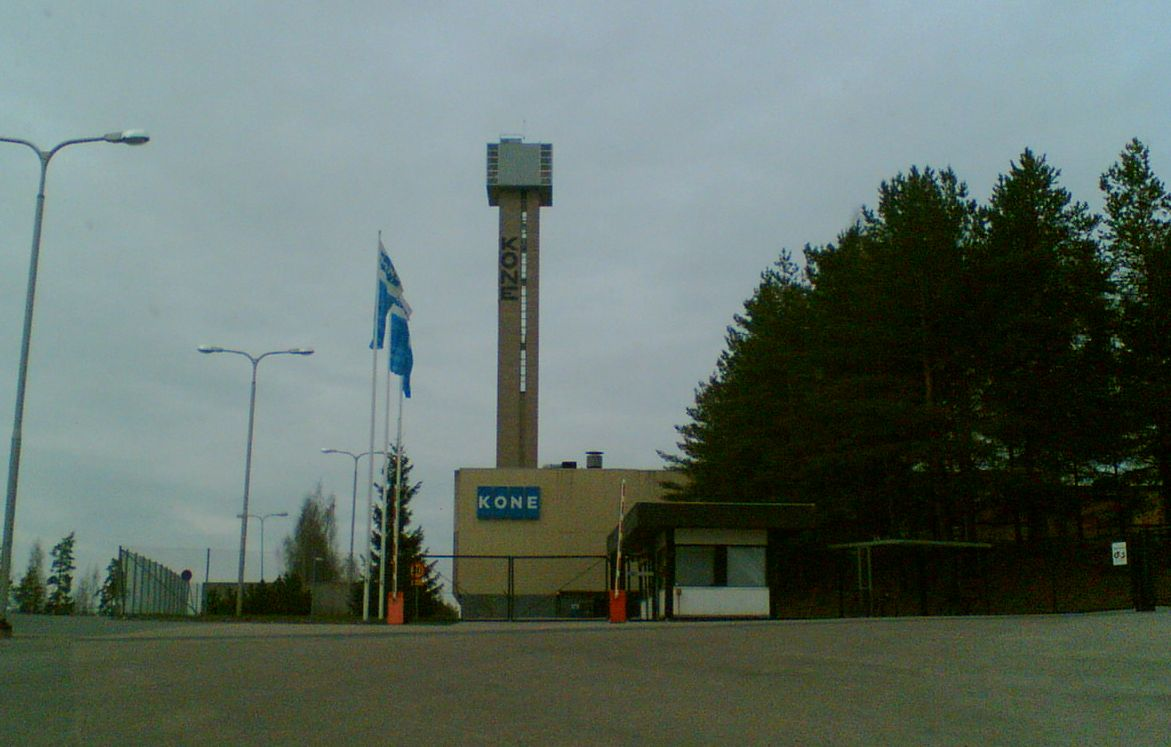 Kone elevator testing tower in Hyvinkää, Finland